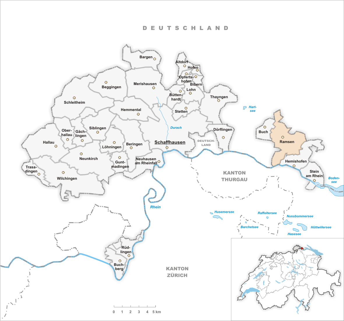 Municipality Ramsen